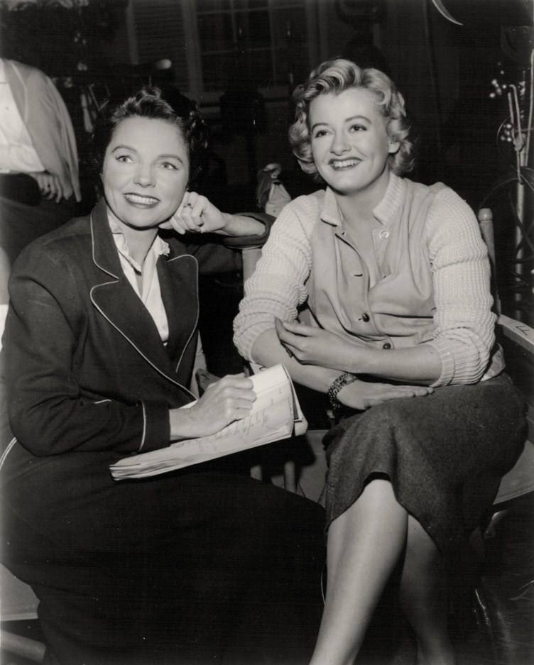 Jane Wyatt (left) & Constance Ford on the set of the TV-series Father Knows Best, episode An Extraordinary Woman - publicity still (cropped)